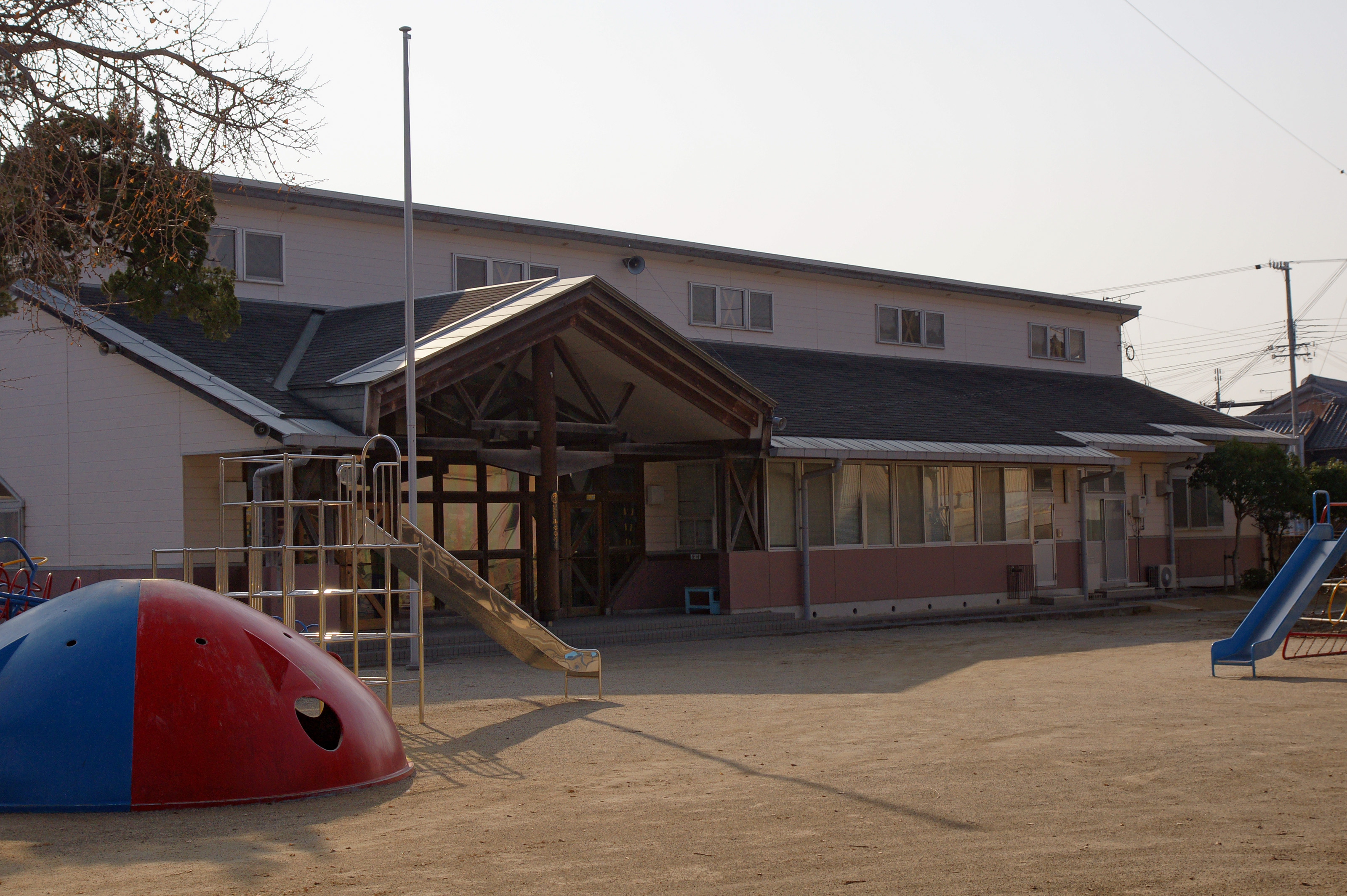 Honganji Hidaka-betsuin, Gobo, Wakayama prefecture, Japan